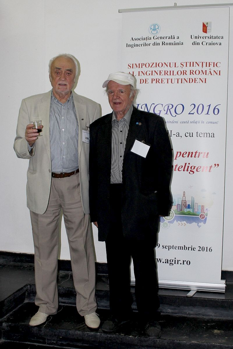 Mihai Mihăiță, president of AGIR (The General Association of Engineers in Romania), president of ASTR (Academy of Technical Sciences of Romania) and Tiberiu Dimitrie Babeu, president of AGIR branch of Timiș county, founding member of ASTR, at SINGRO 2016.